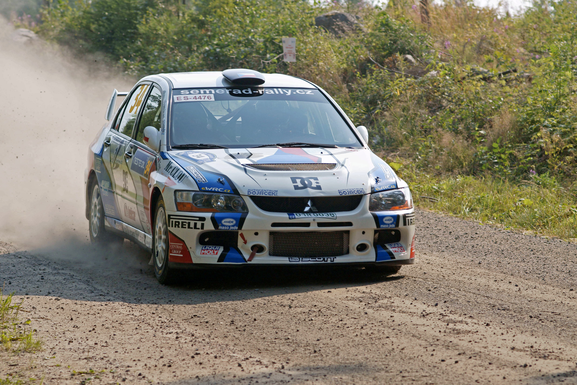 Martin Semerad driving at Rannakylä shakedown in Muurame.